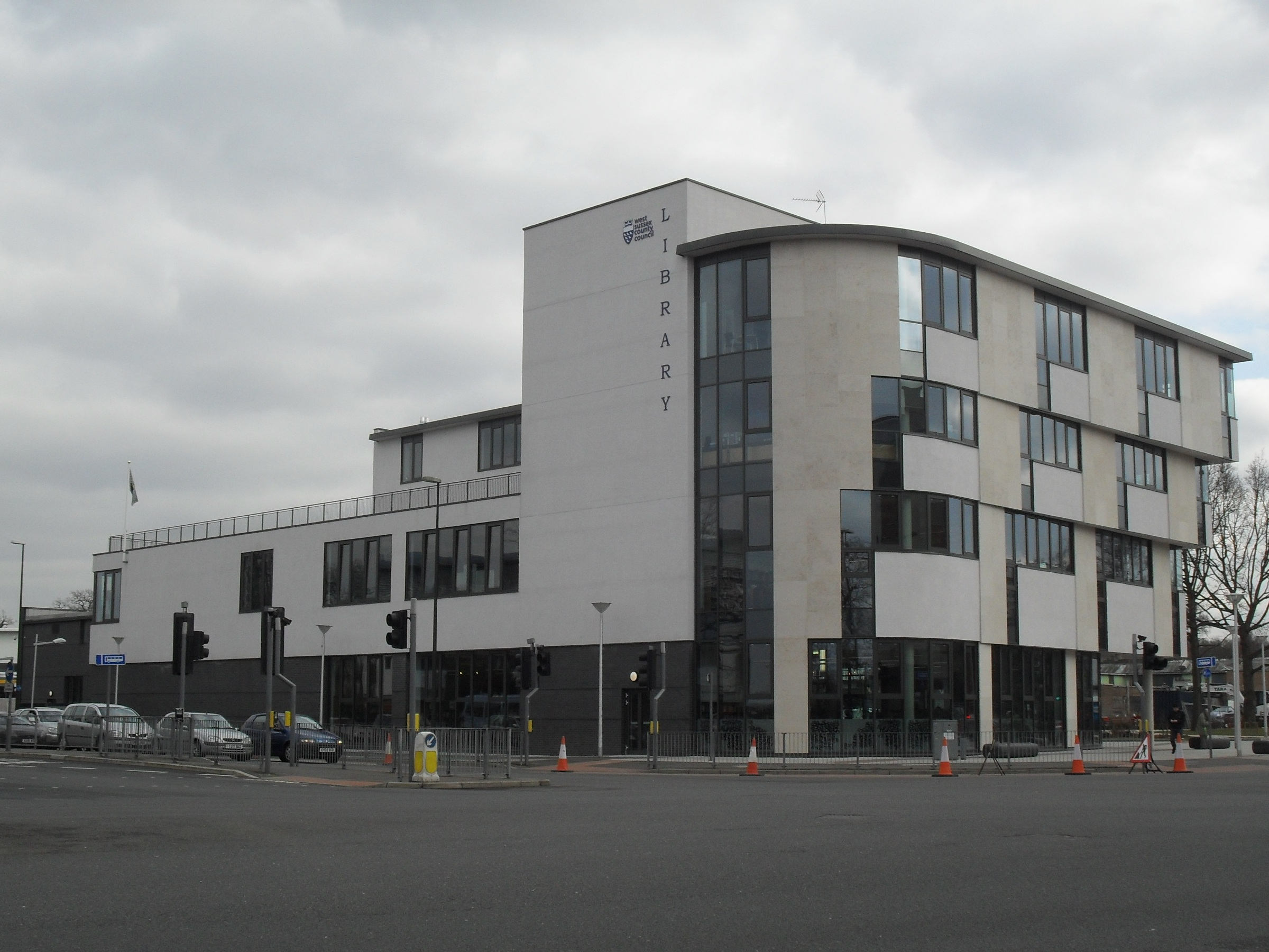 Crawley's new library, at the junction of Southgate Avenue and Haslett Avenue East, Crawley, West Sussex, England. This opened in December 2008.